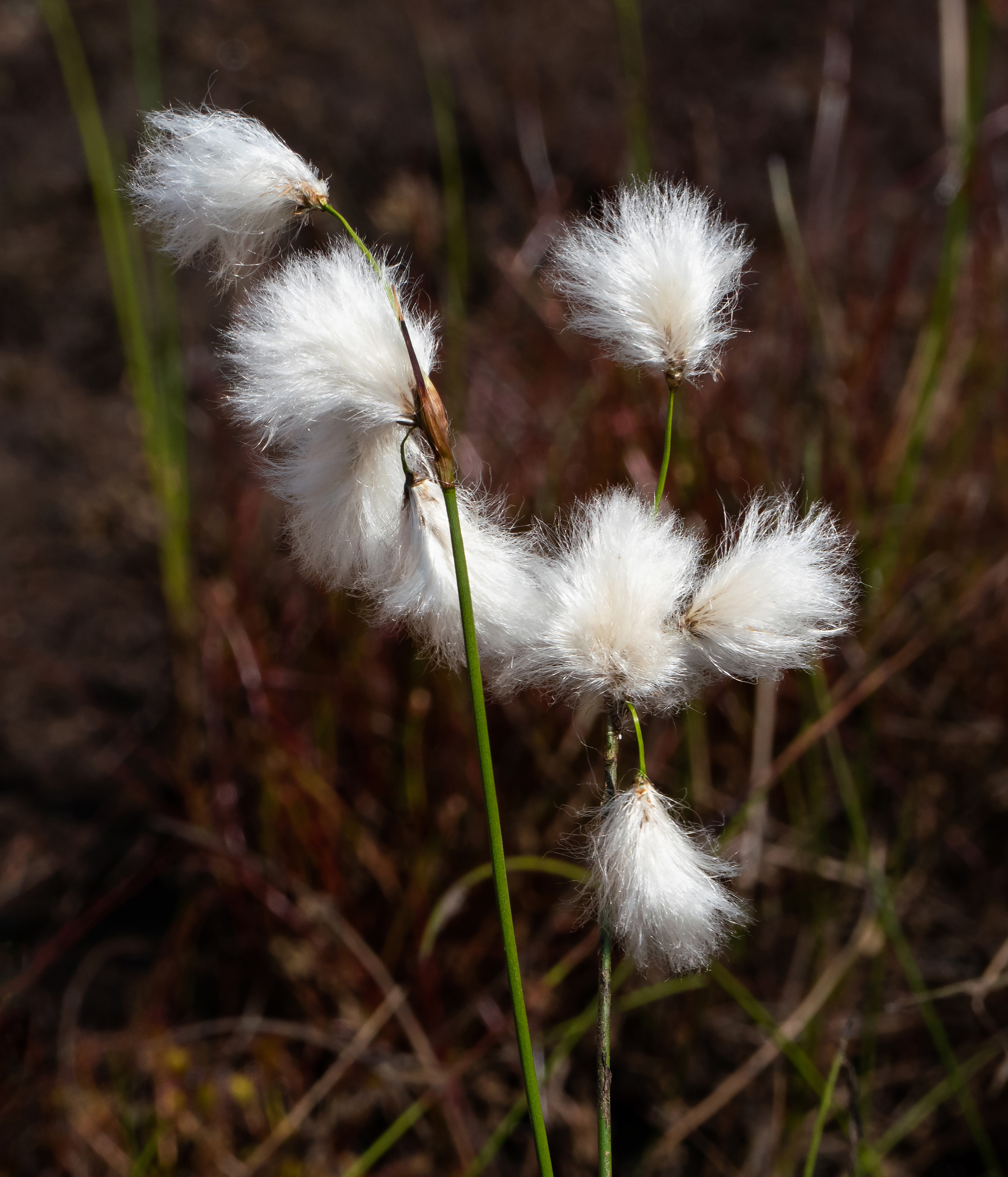 Common cottongrass (Eriophorum angustifolium) growing in a crevice high on a granite cliff in Ålevik, Lysekil, Sweden. Sunda: Jukut kapas (Eriophorum angustifolium) tumuwuh dina cadas granit di Ålevik, Swédia.